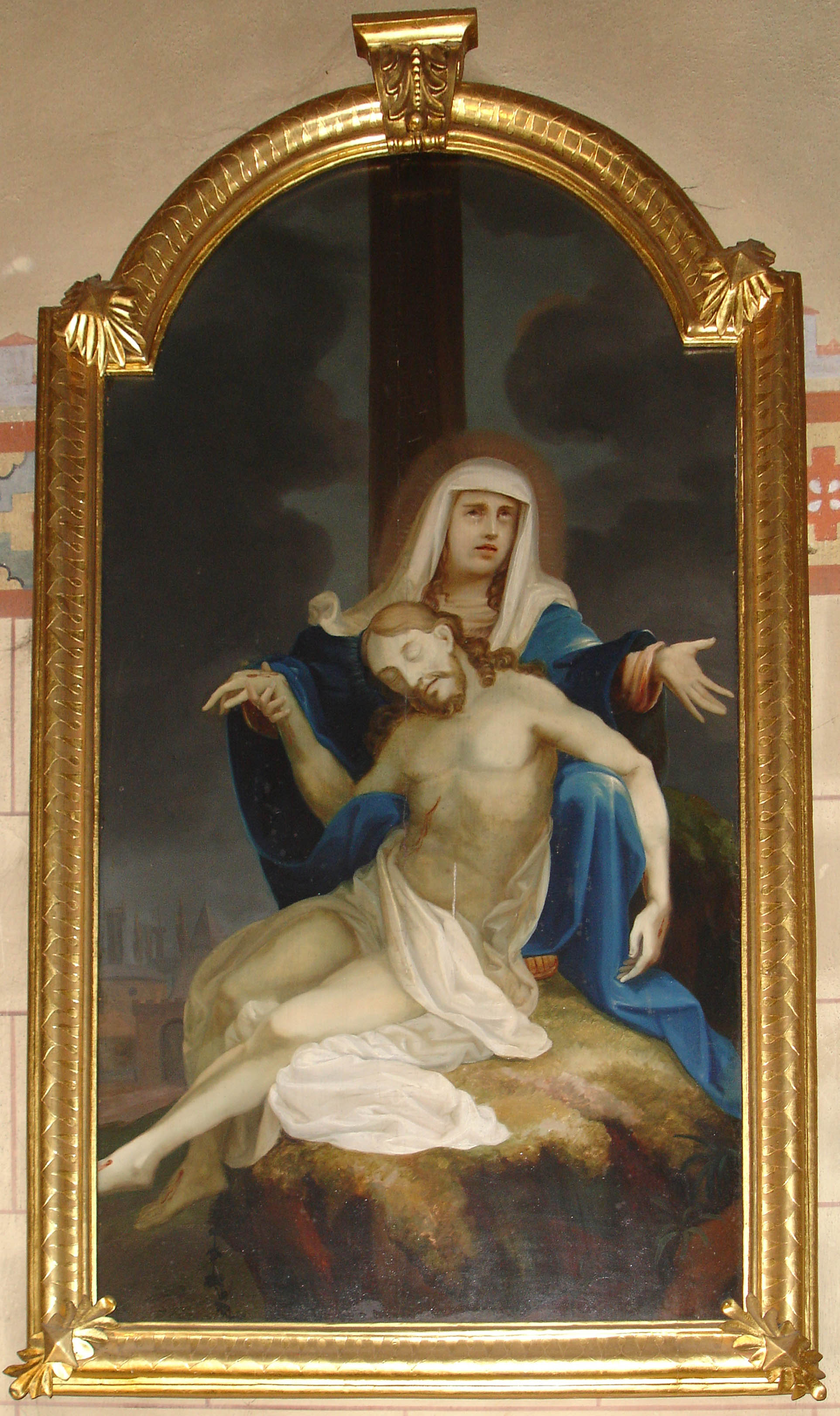 Gothic Pietà of an unknown painter in the pilgrimage church "Maria vom Sieg"